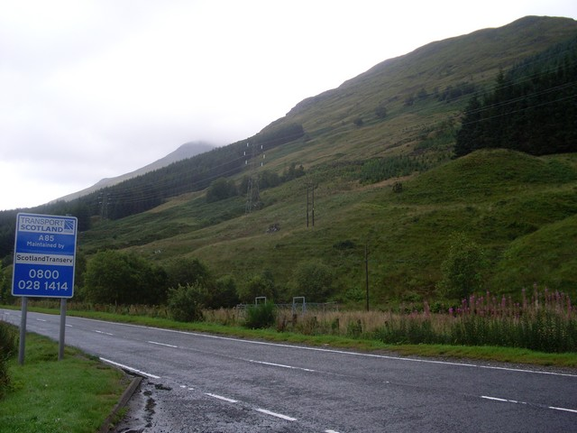 A85 near Crianlarich Taken from a layby just past the village.